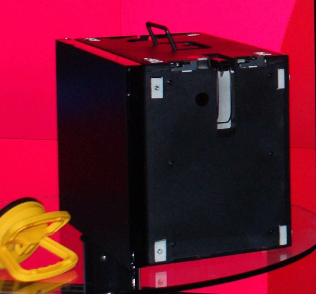 Christie Digital single MicroTile unit with suction cup tool